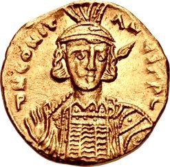 Solidus of Constantine IV.